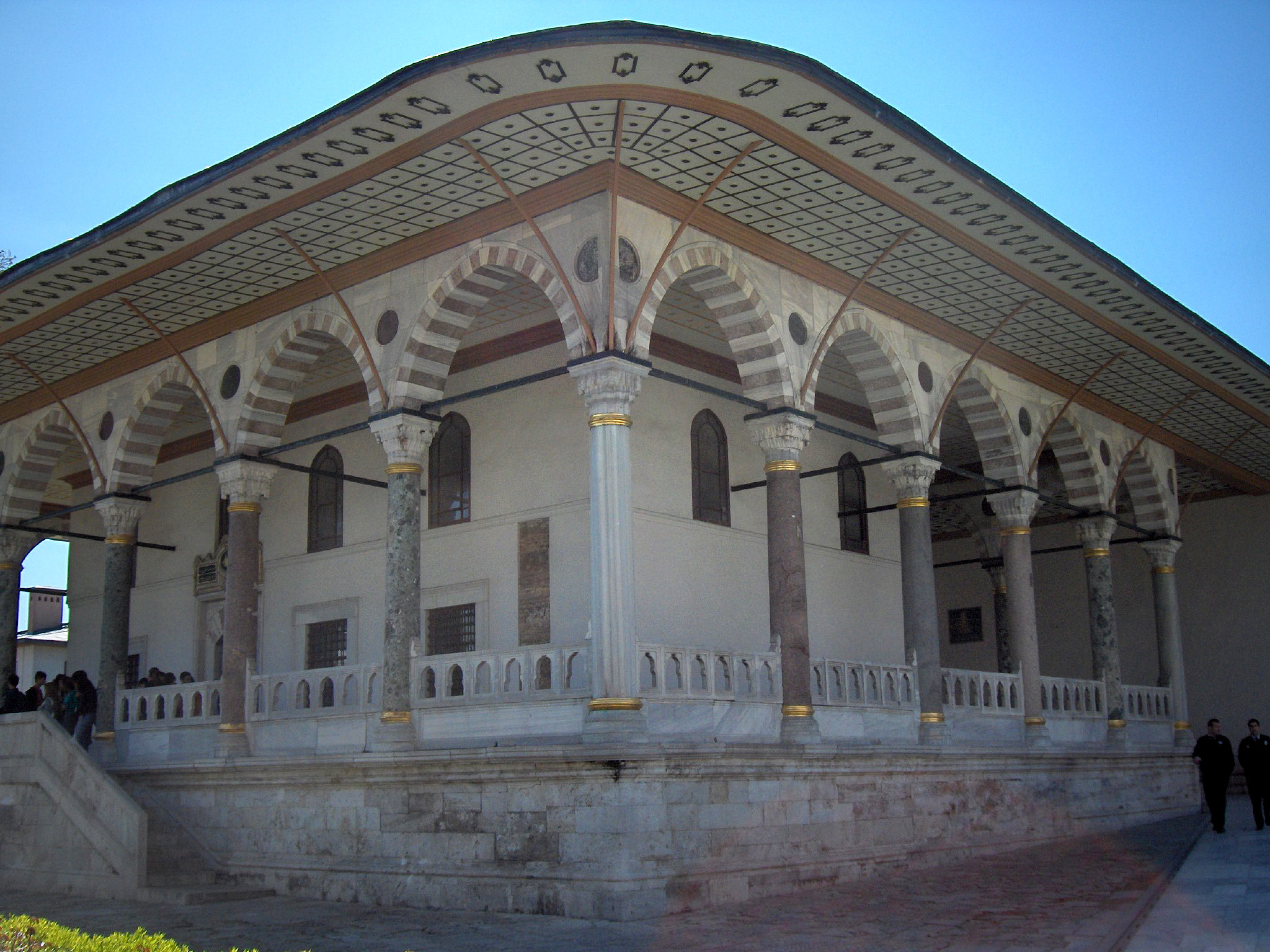 Hall of the Privy Chamber (Arz Odası); third court; Topkapı Palace, Istanbul, Turkey